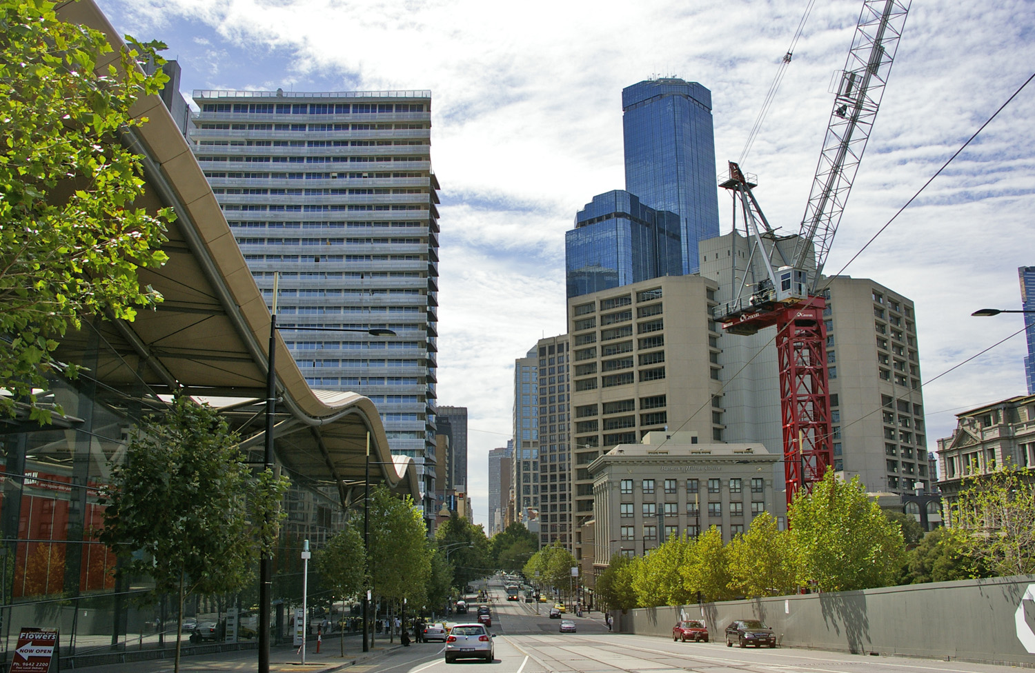 Looking down Collins Street from the Southern Cross Station in Melbourne, Victoria, Australia